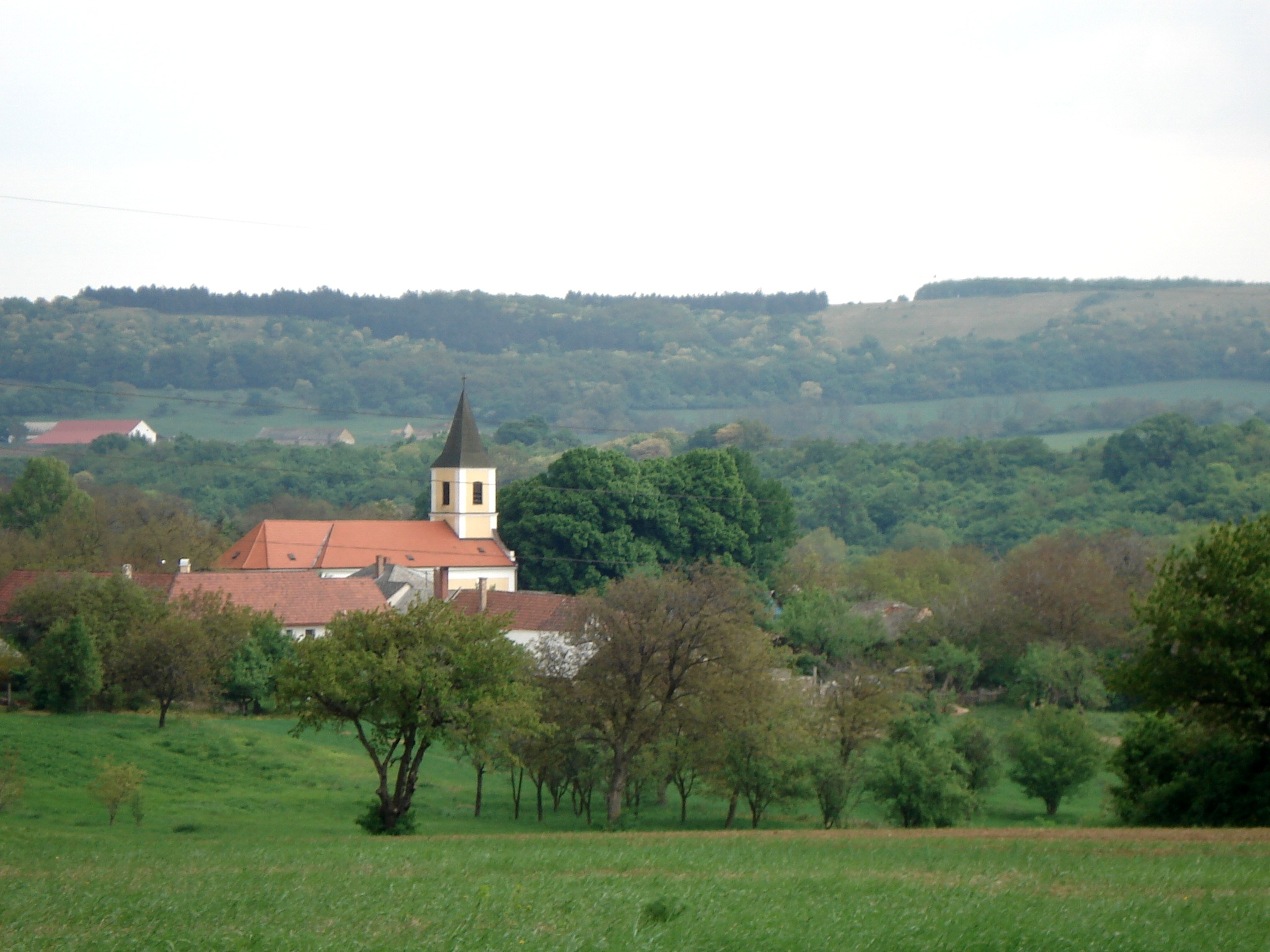 View of Bakonykúti, Hungary